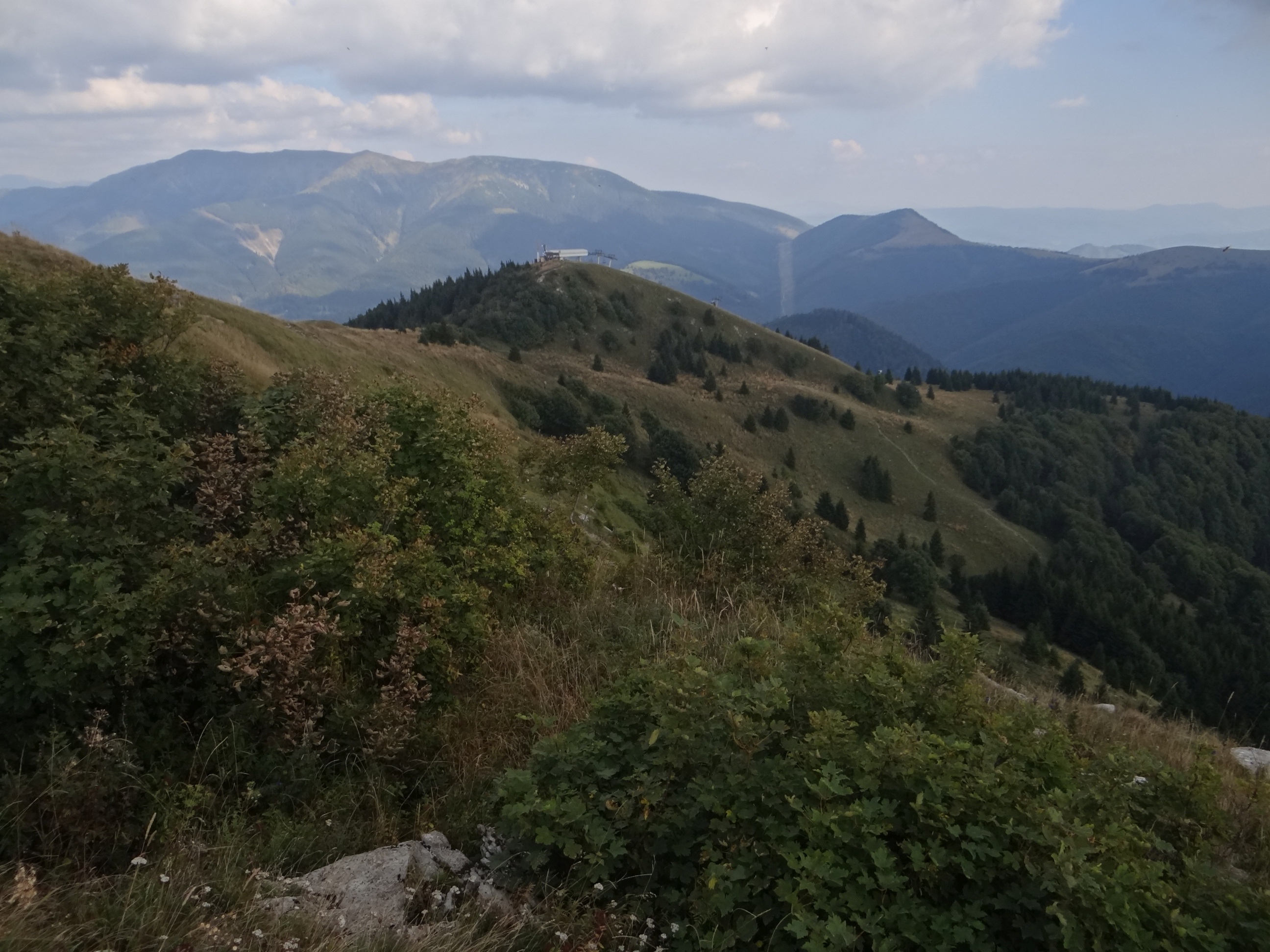 Nová hoľa